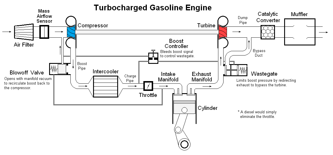 Illustration of a typical production installation of a turbocharger and its various control elements such as the wastegate, intercooler, boost controller, and blow-off valve.